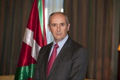 Josu Erkoreka, 2012-2016 Basque Governmet's councilor and spokesman.